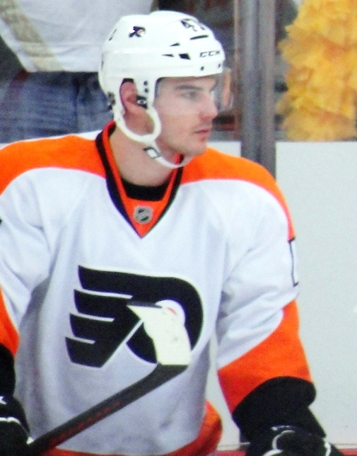 Philadelphia Flyers left winger Eric Wellwood during a game against the Pittsburgh Penguins, April 7, 2012 at Consol Energy Center in Pittsburgh, PA.